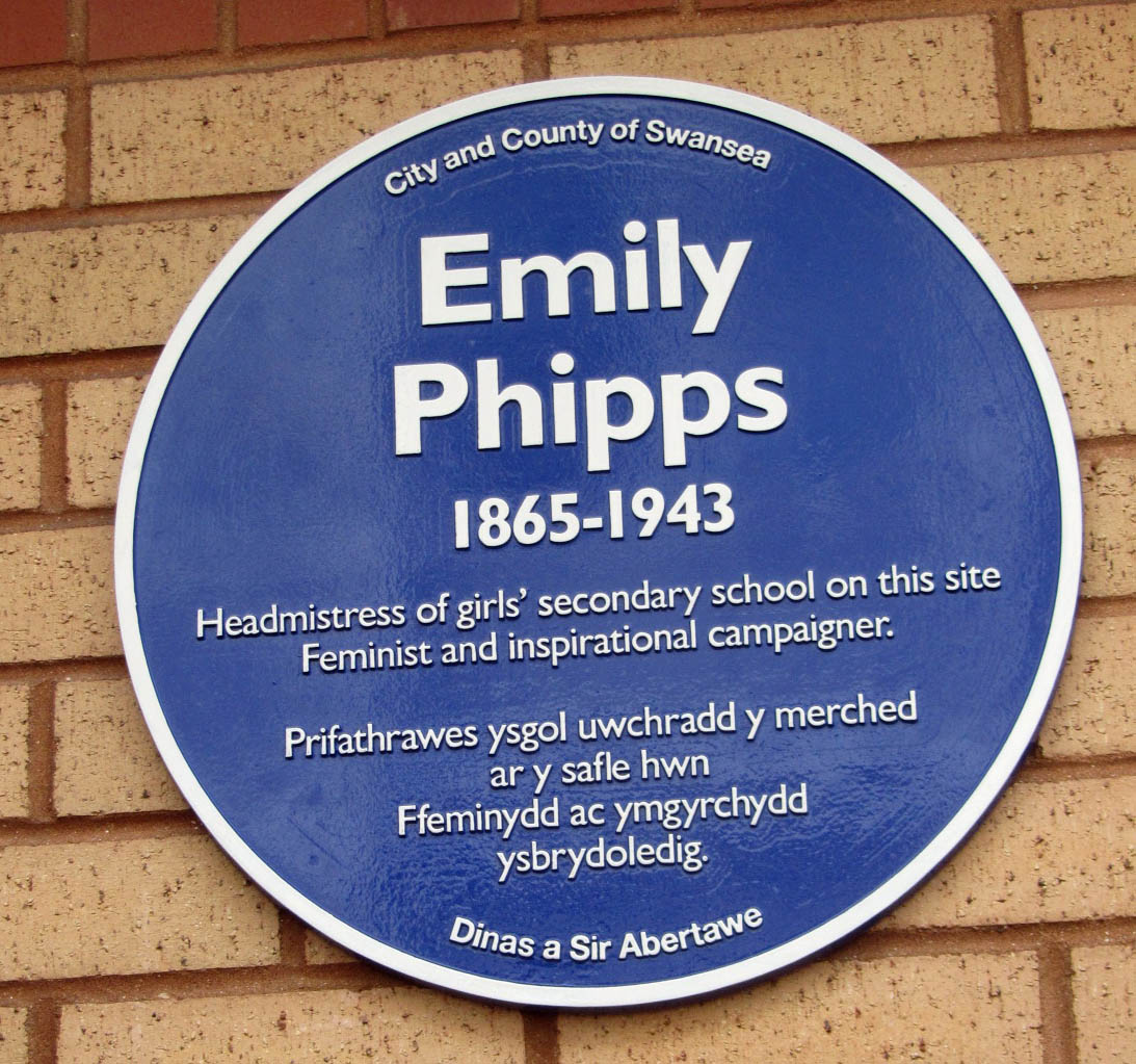 Blue Plaque unveiled to Emily Phipps on the site of the school where she was Headmistress, Orchard Street, Swansea, 18th November 2013